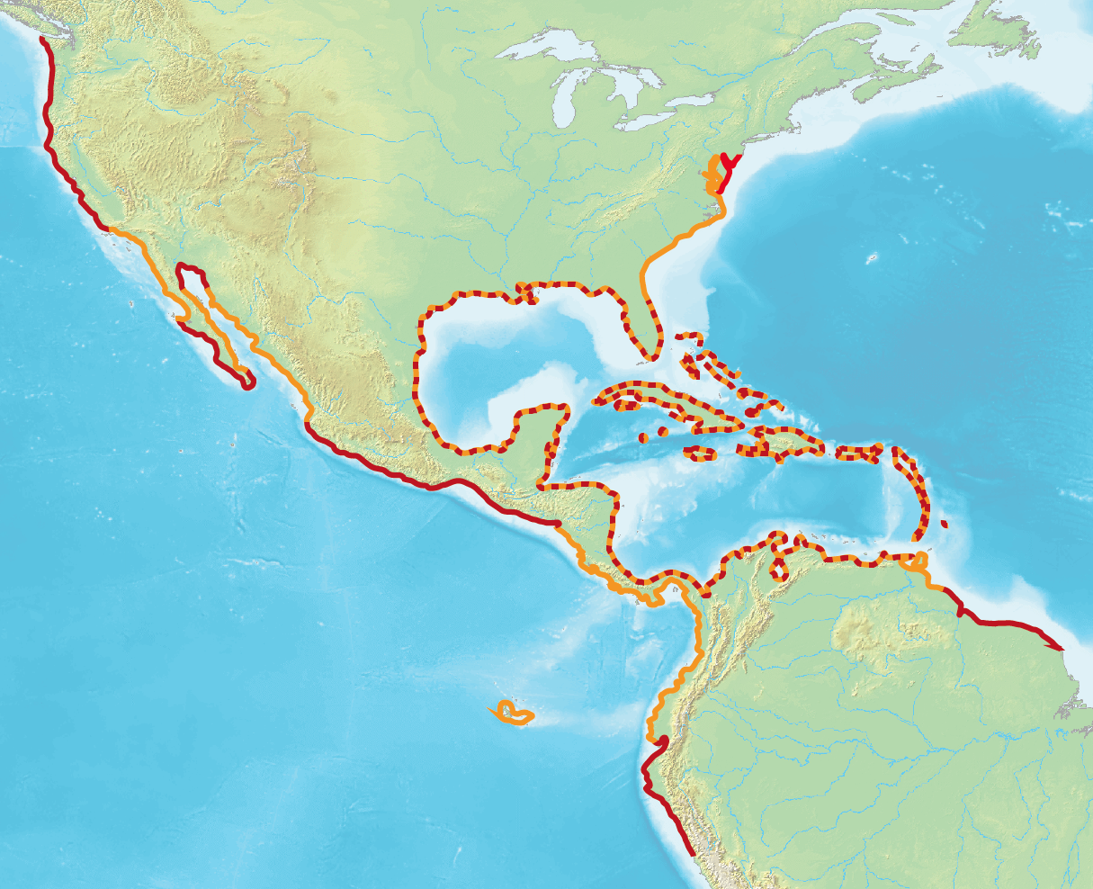 Distribution Map Brown Pelican (Pelecanus occidentalis). red: year-round nonbreeding orange: year-round breeding Omitted for simplified presentation: population on Galapagos Islands. Data source: BirdLife International and NatureServe (2014) Bird Species Distribution Maps of the World. 2012. Pelecanus occidentalis. The IUCN Red List of Threatened Species. Version 2014.3, last accessed on January 23, 2015